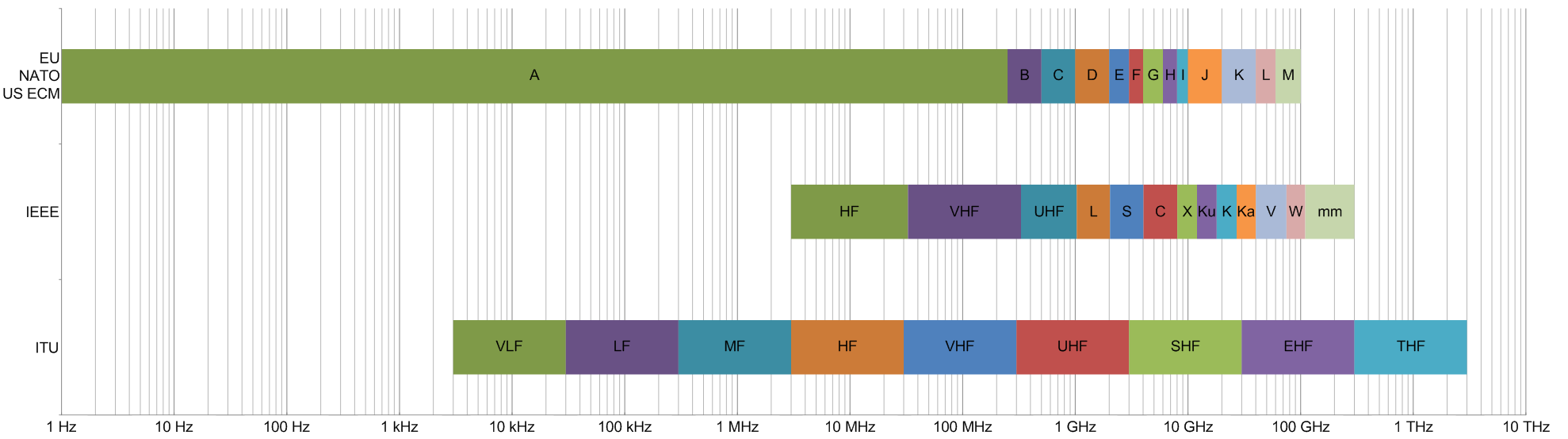 Comparison of the frequency bands defined by NATO, IEEE and ITU